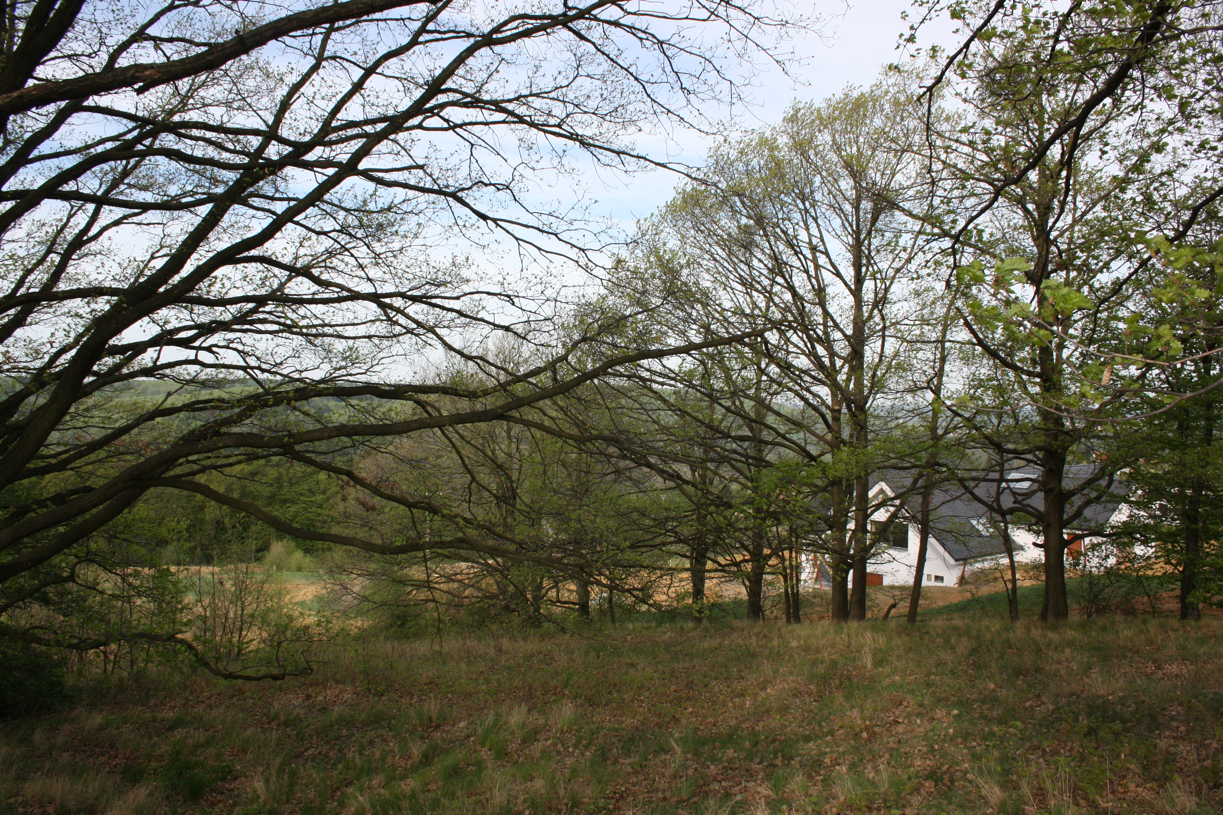 Natural monument Na Hájku, Brno-Country District, Sout Moravian Region, Czech Republic Project: Chráněná území This photograph was taken with a DSLR from WMCZ's Camera grant.